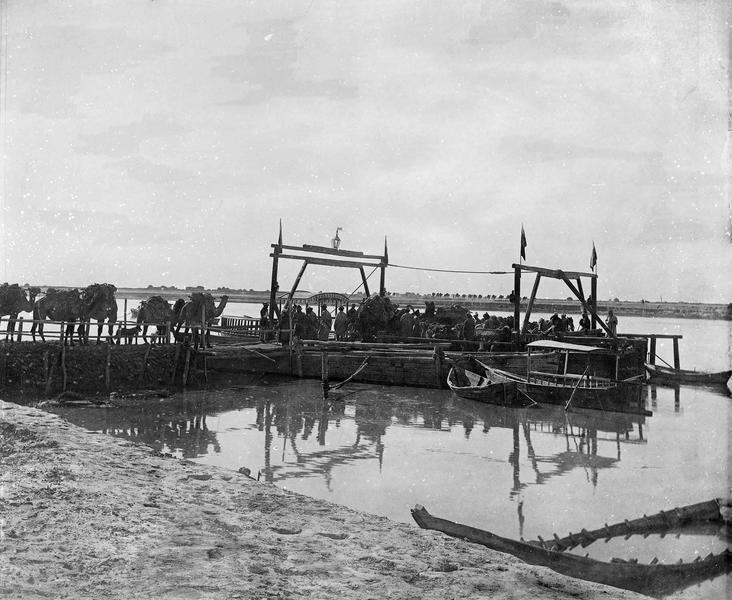 Сырдарья. Паромная переправа у Чиназа2